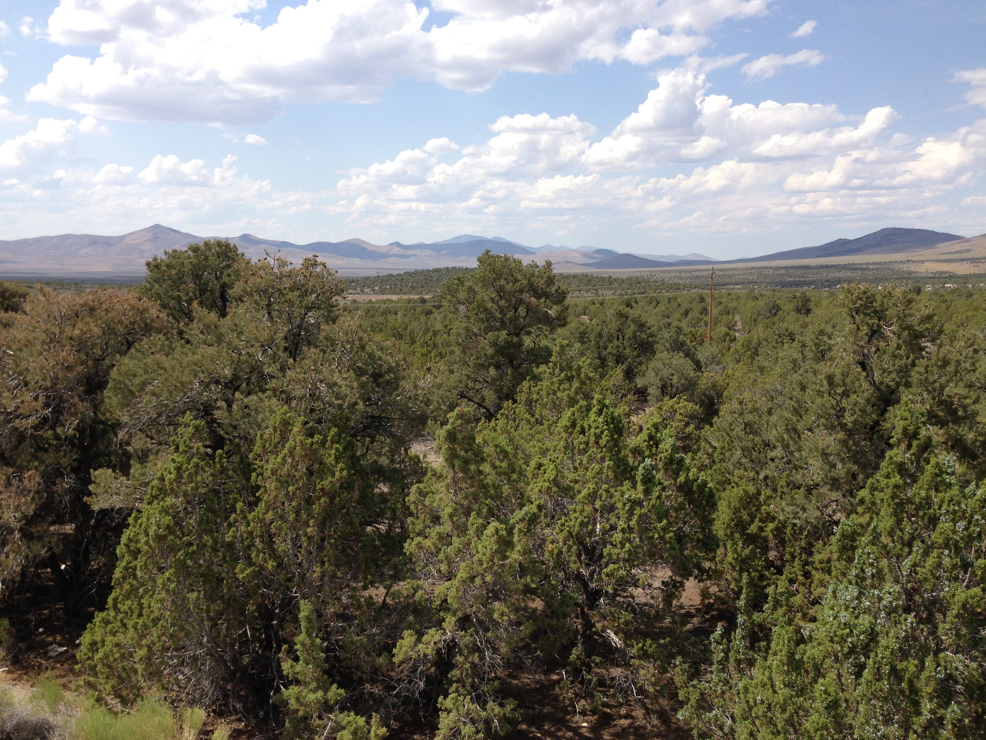 Singleleaf Pinyon-Utah Juniper woodland along Interstate 80 east of Wells in Elko County, Nevada